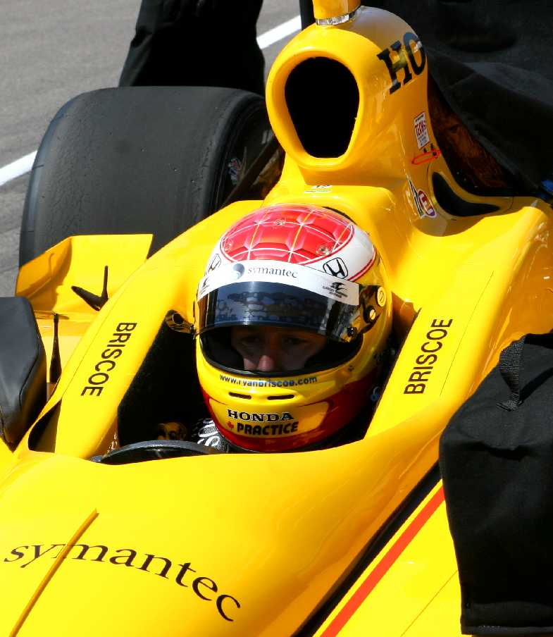 Ryan Briscoe waits for a chance to qualify for the 2007 Indy 500. Photo by Tim Wohlford